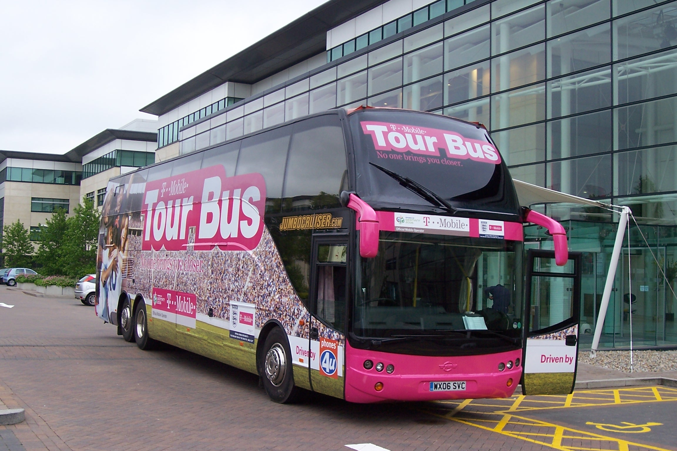 Jumbocruiser special sleeper to 2006 World Cup